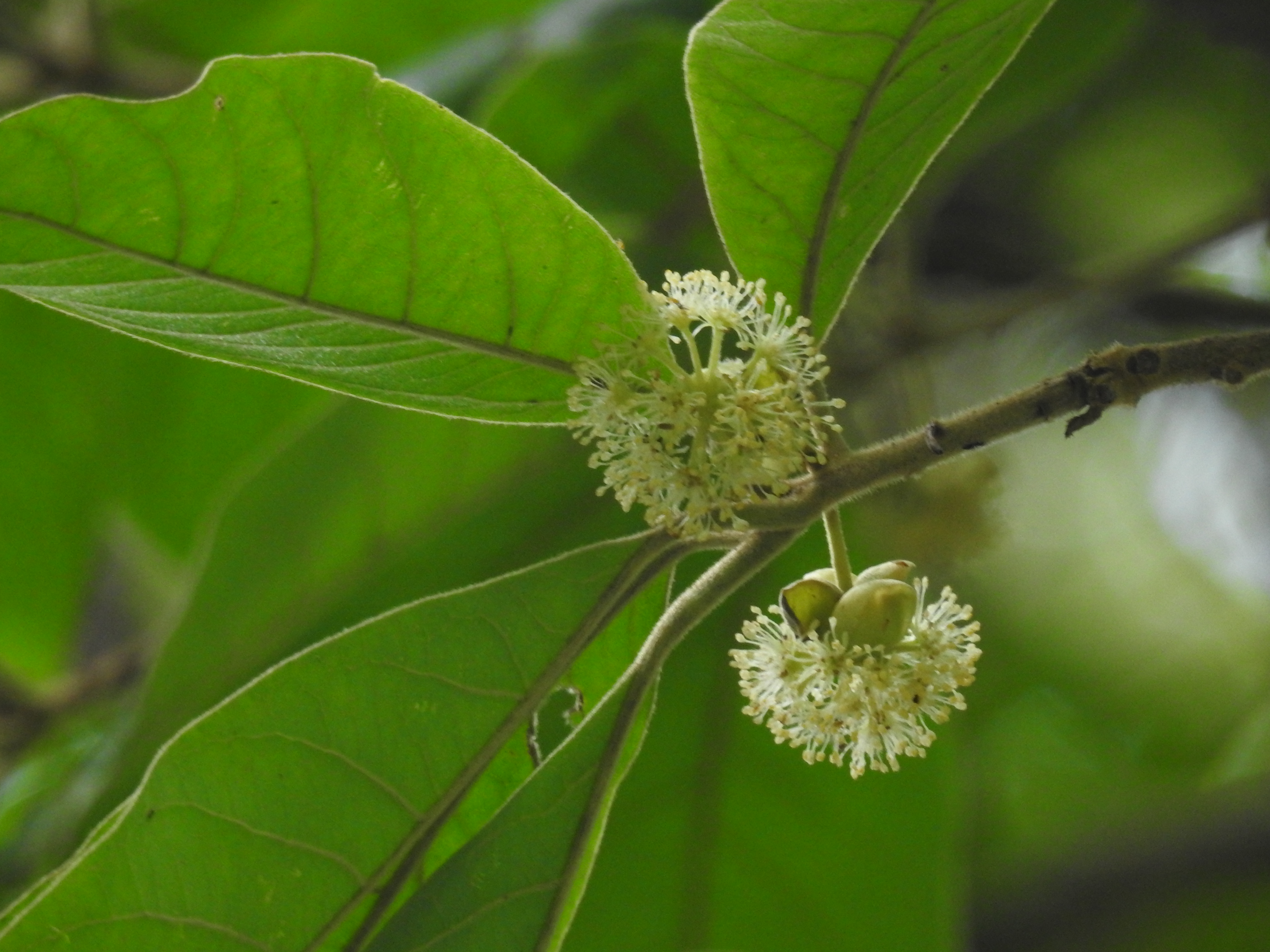 Litsea deccanensis flowers in the Anamalai Hills